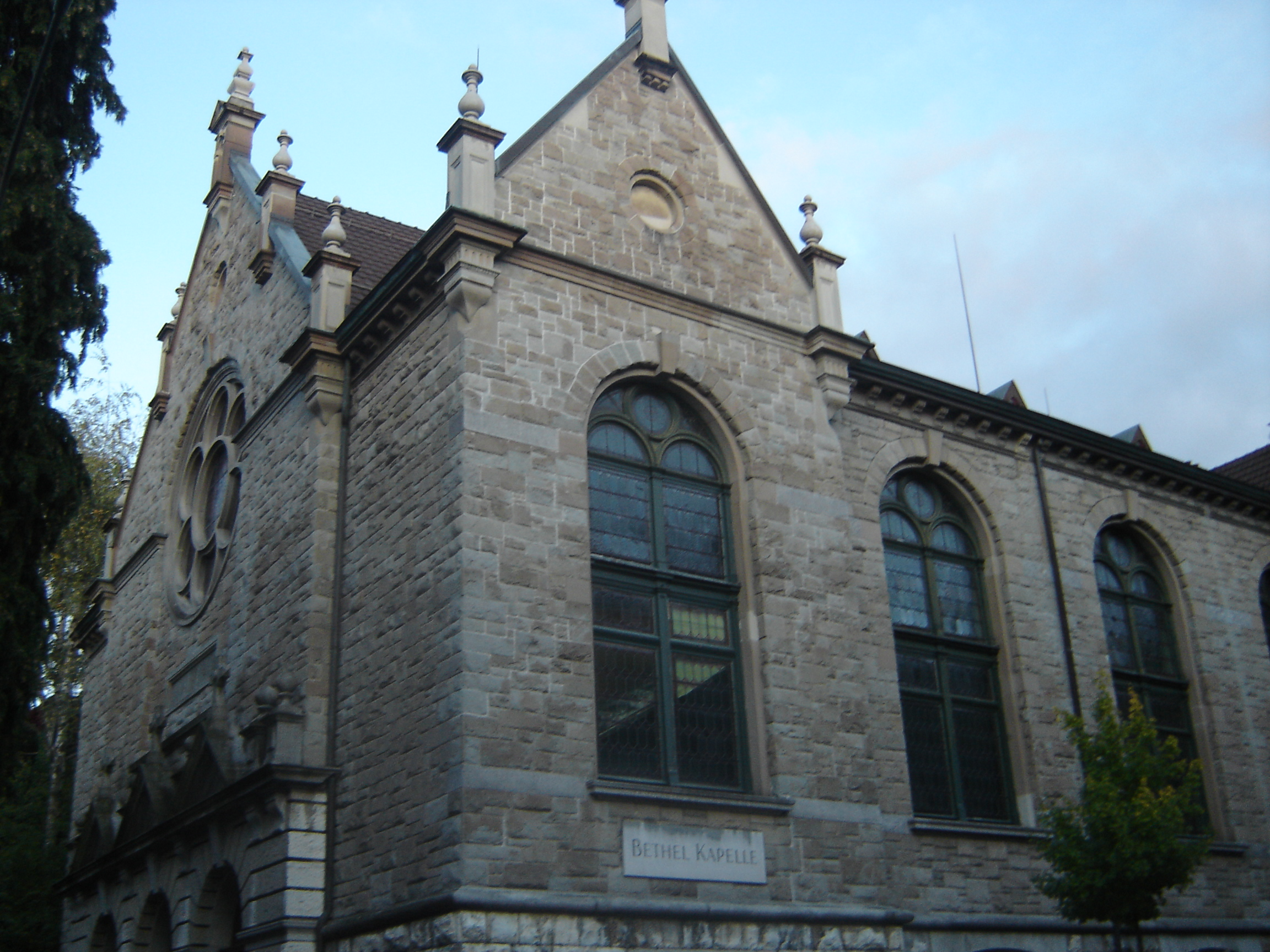 Photography taken on my own St Chrischona Pilgermission Bethel Kapelle_Chapel_Zürich_zurich_Schweiz_Switzerland